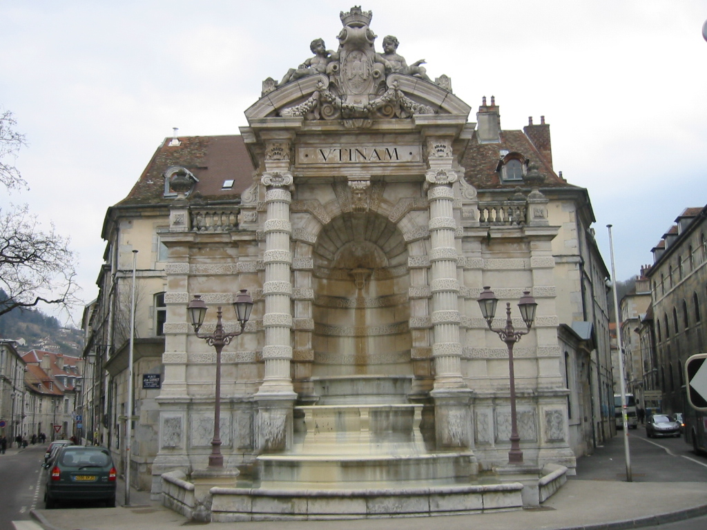 Fountain of Besançon, on Jean Cornet square.